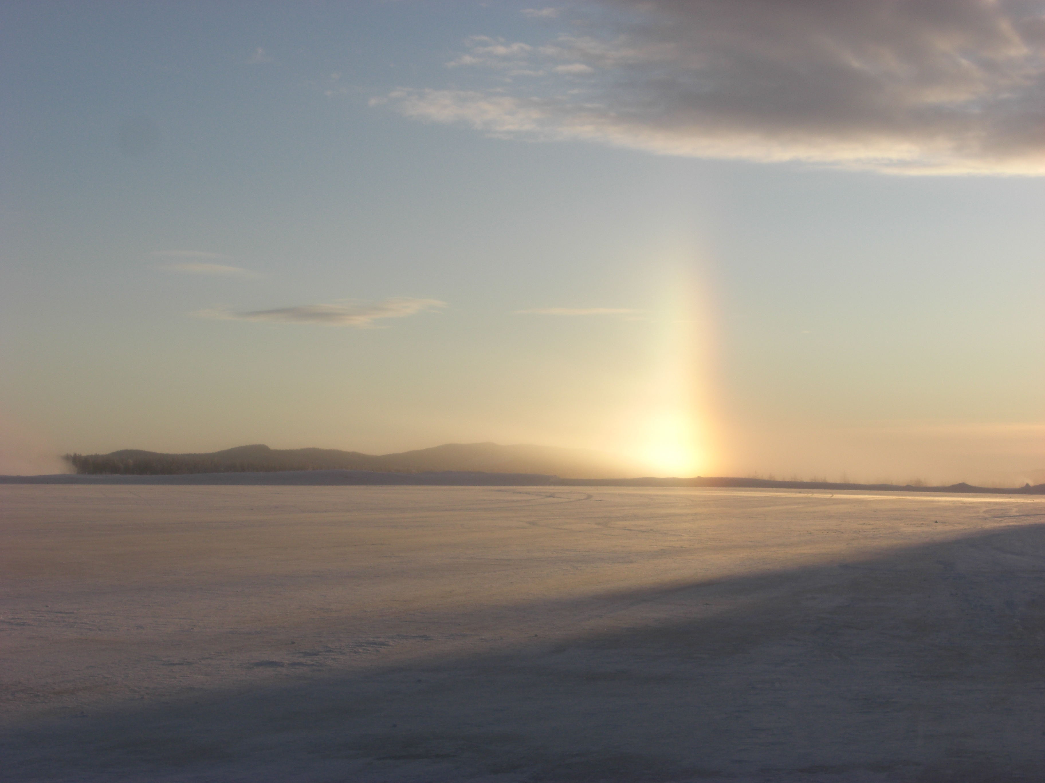 Sundog: ice crystals formed in the stable morning air, bending the twilight into the colours of the rainbow.